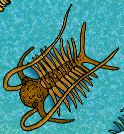 crop of file in file name